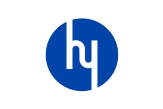 Flag of Higashiyoshino Nara